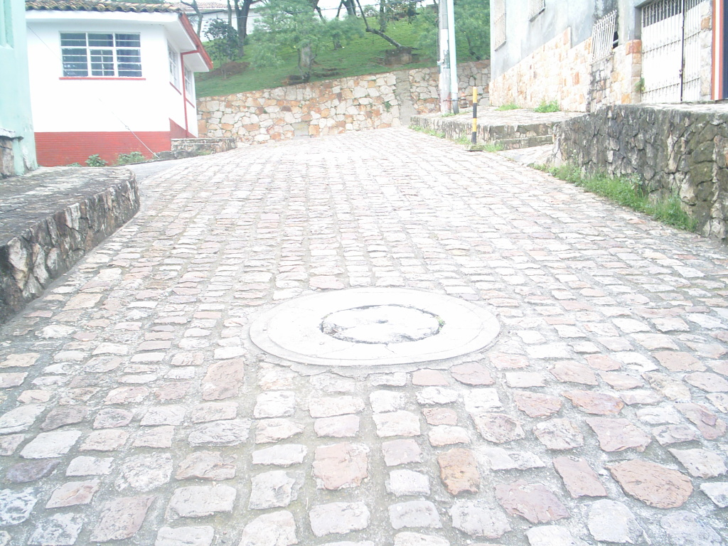 Stone street in San Antonio